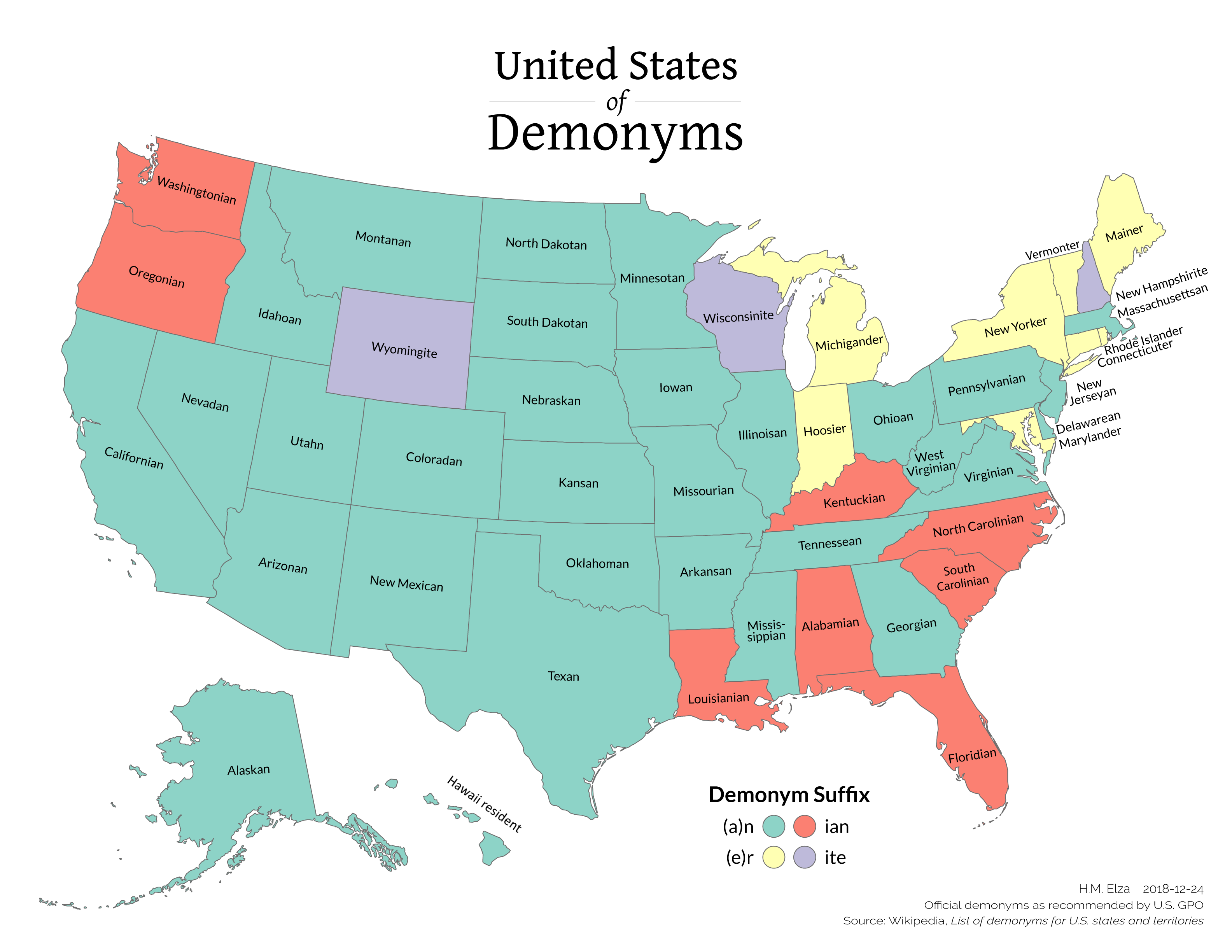 A thematic map of the United States of America with each state labeled with the U.S. GPO recommended demonym. States are colored by suffix.